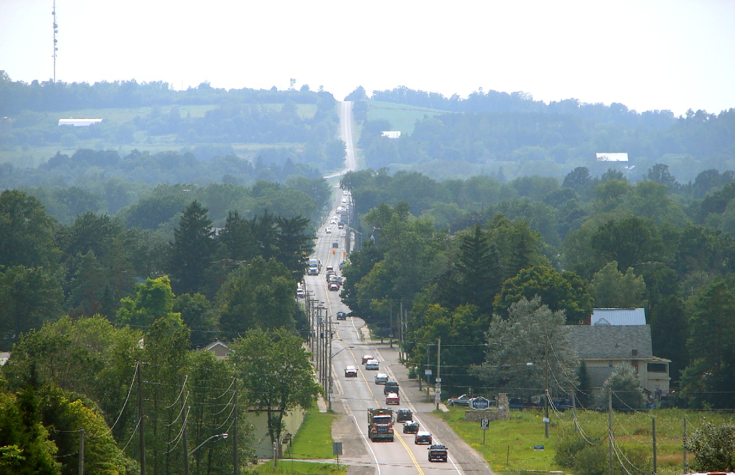 Highway 7 through Omemee (City of Kawartha Lakes), Ontario, Canada